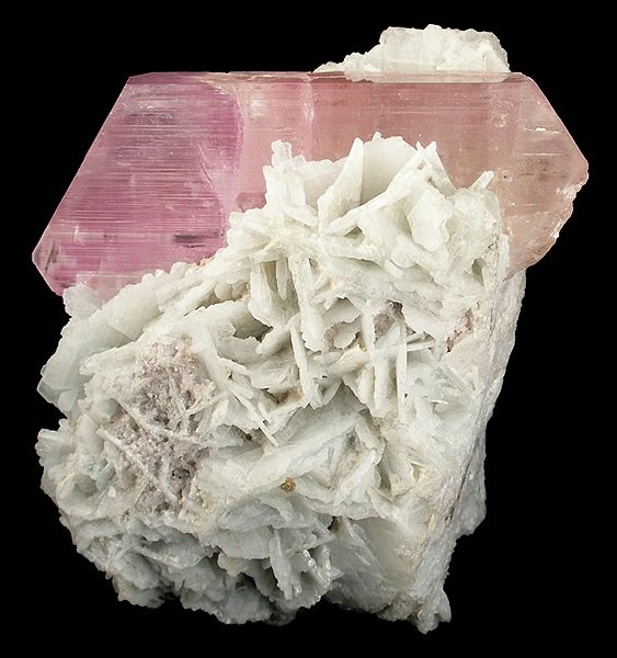 Spodumene (Var.: Kunzite), Albite (Var.: Cleavelandite) Locality: Mawi pegmatite, Laghman (Lagman; Nuristan) Province, Afghanistan (Locality at ) Size: 8.6 x 7.7 x 6.7 cm. This is a beautiful matrix specimen hosting a doubly-terminated 8 x 3 x 2 cm kunzite crystal, perched snugly in cleavelandite matrix. What impresses me is not so much the color (which is quite nice) , but the display of the crystal so both gemmy terminations show; and the incredible sharp termination on one end which has faces showing none of the usual etching and dissolution effects one expects to see in most large kunzite crystals (from any locality). Rather, the termination is sharp, defined, and textbook in symmetry. Ex. Rolf Wein Collection.